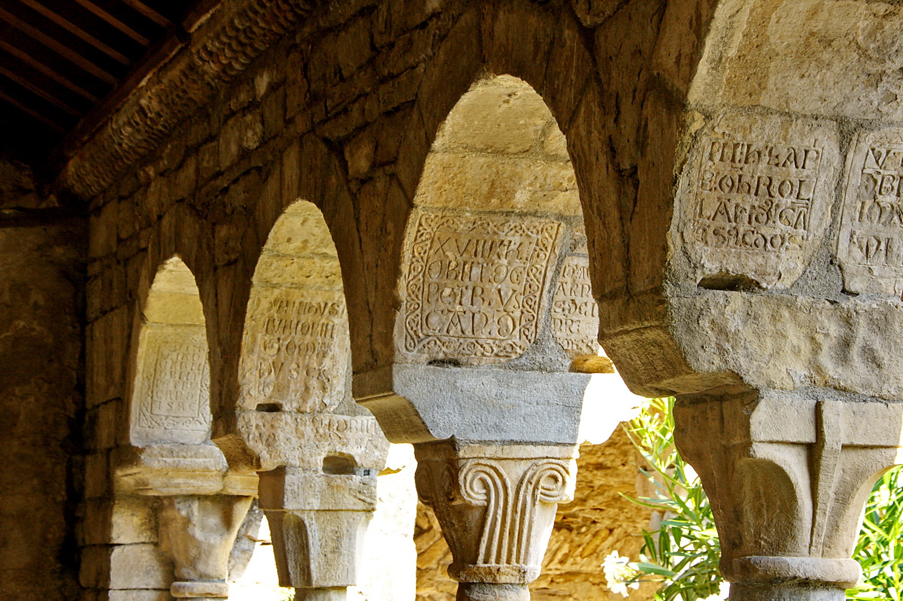 Cloister of the San Vicente Cathedral, in Roda de Isábena, Huesca, Spain.